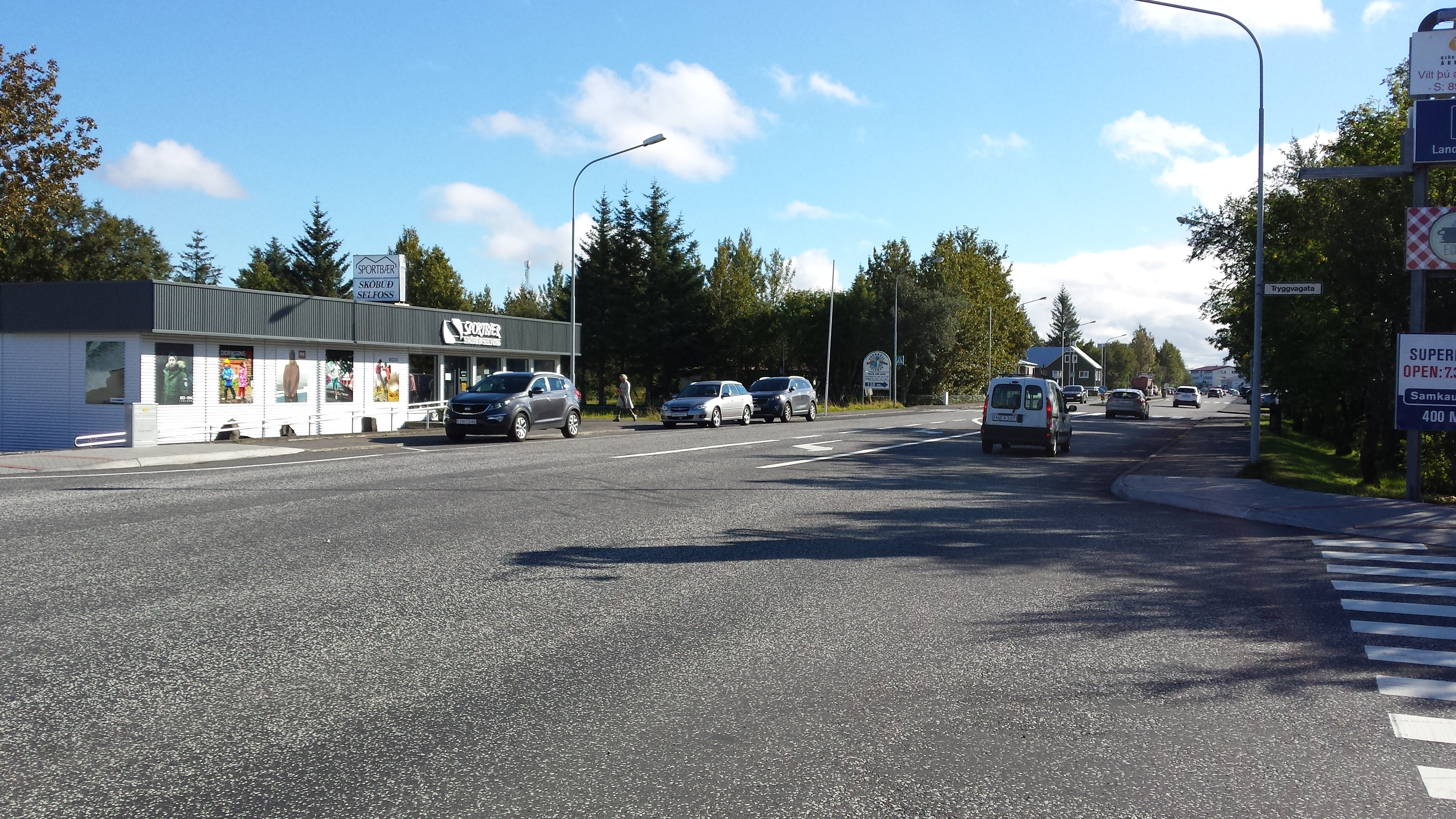 Intersection of Austurvegur and Tryggvagata streets in Selfoss